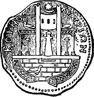 Image of a Cypriotic coin from the reign of Caracalla (2nd/3rd century A.D). Depicting the temple of Aphrodite at Paphos. The legend reads "KOINON CYPRION" (confederation of cypriots), which was responsable for silver and bronze coinage.